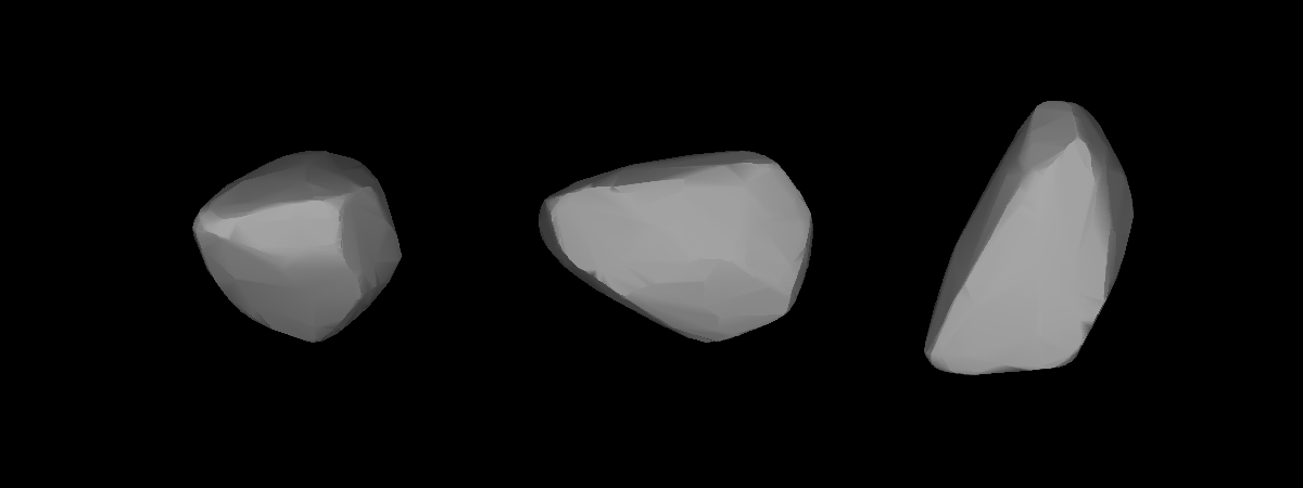 A three-dimensional model of 182 Elsa that was computed using light curve inversion techniques.